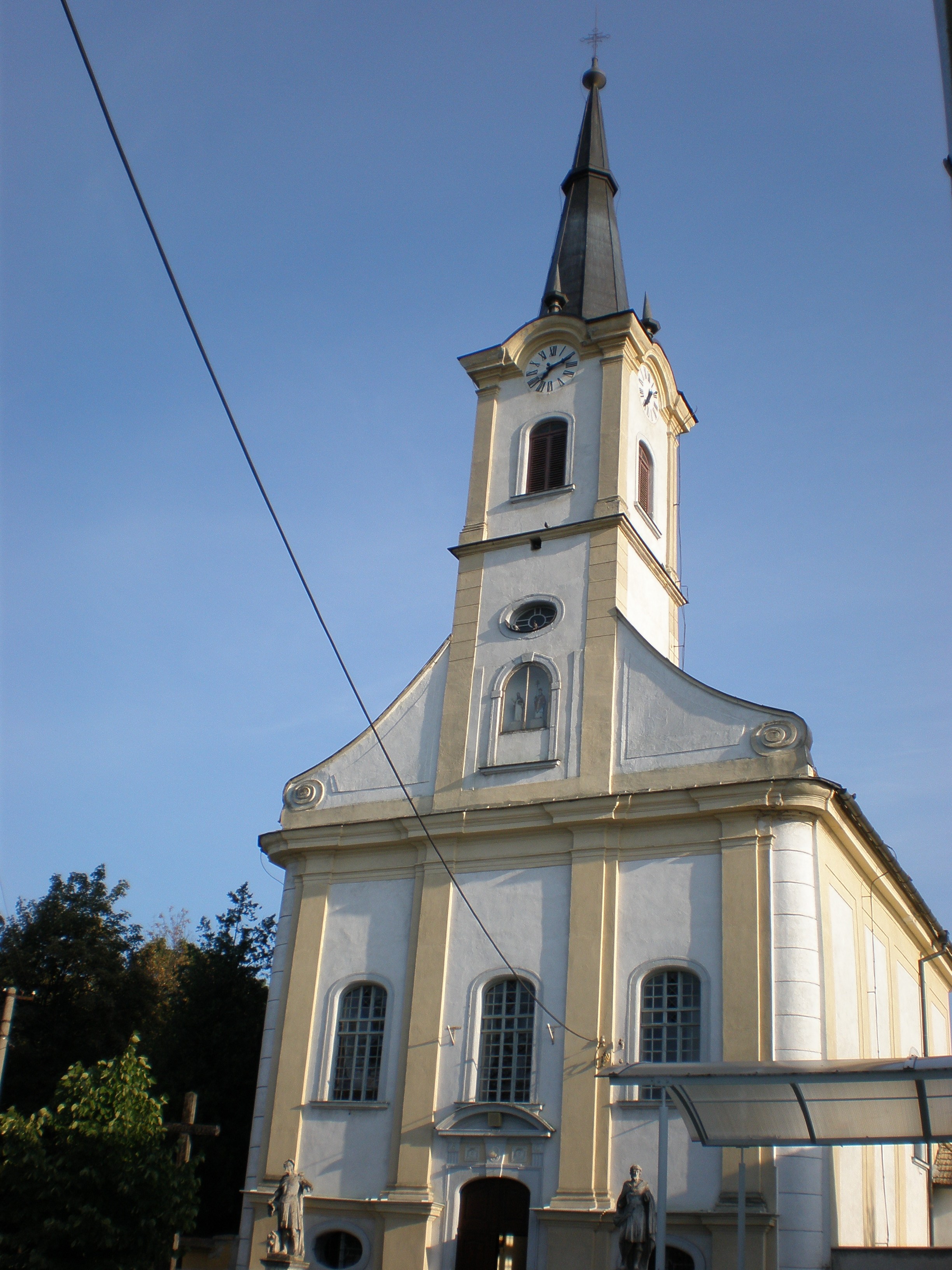 Church in Ivanka